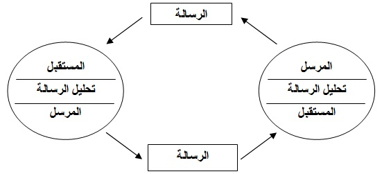 نموذج شرام